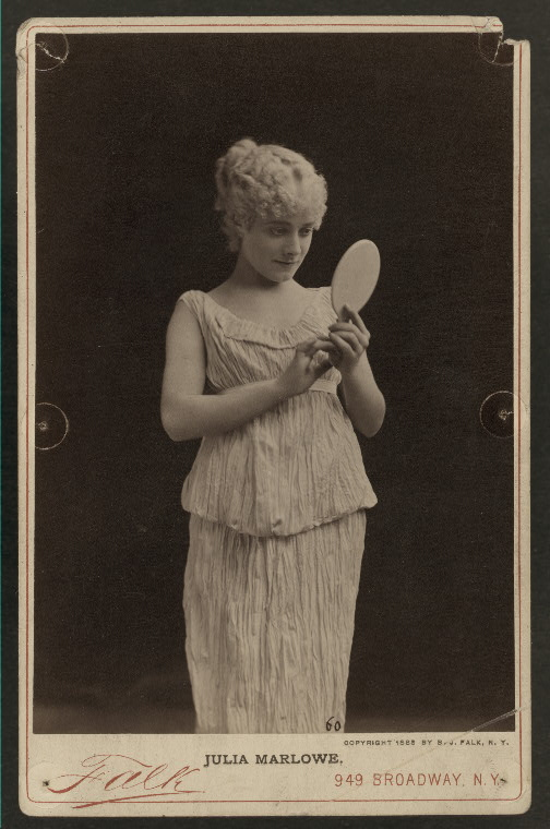 Julia Marlowe in Pygmalion and Galatea, 1888